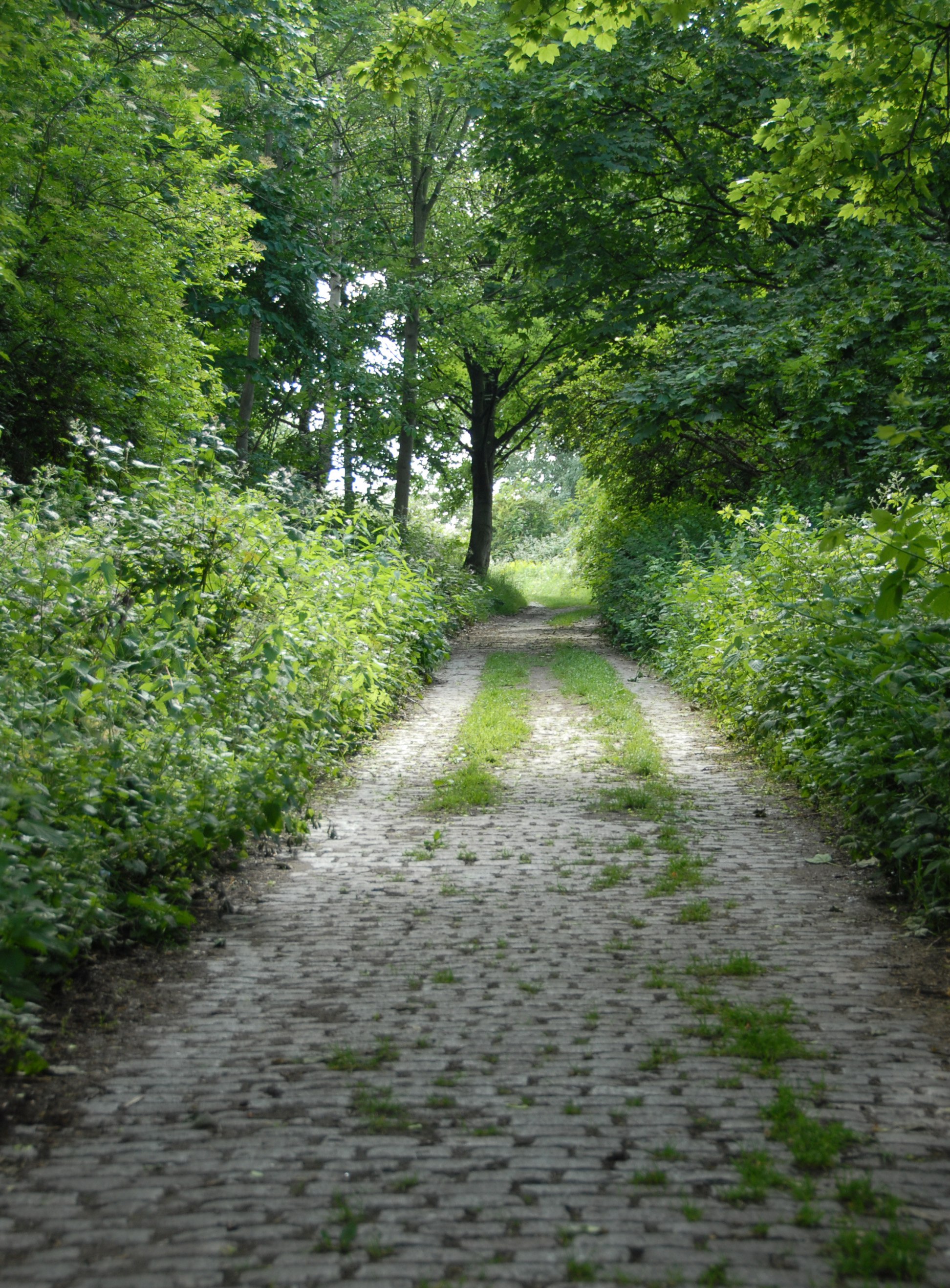 Own Work